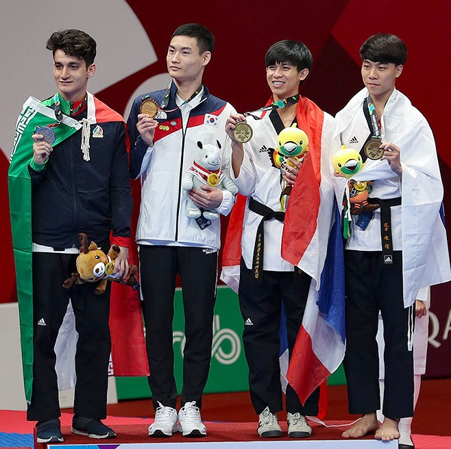 Taekwondo at the 2018 Asian Games – Men's individual poomsae